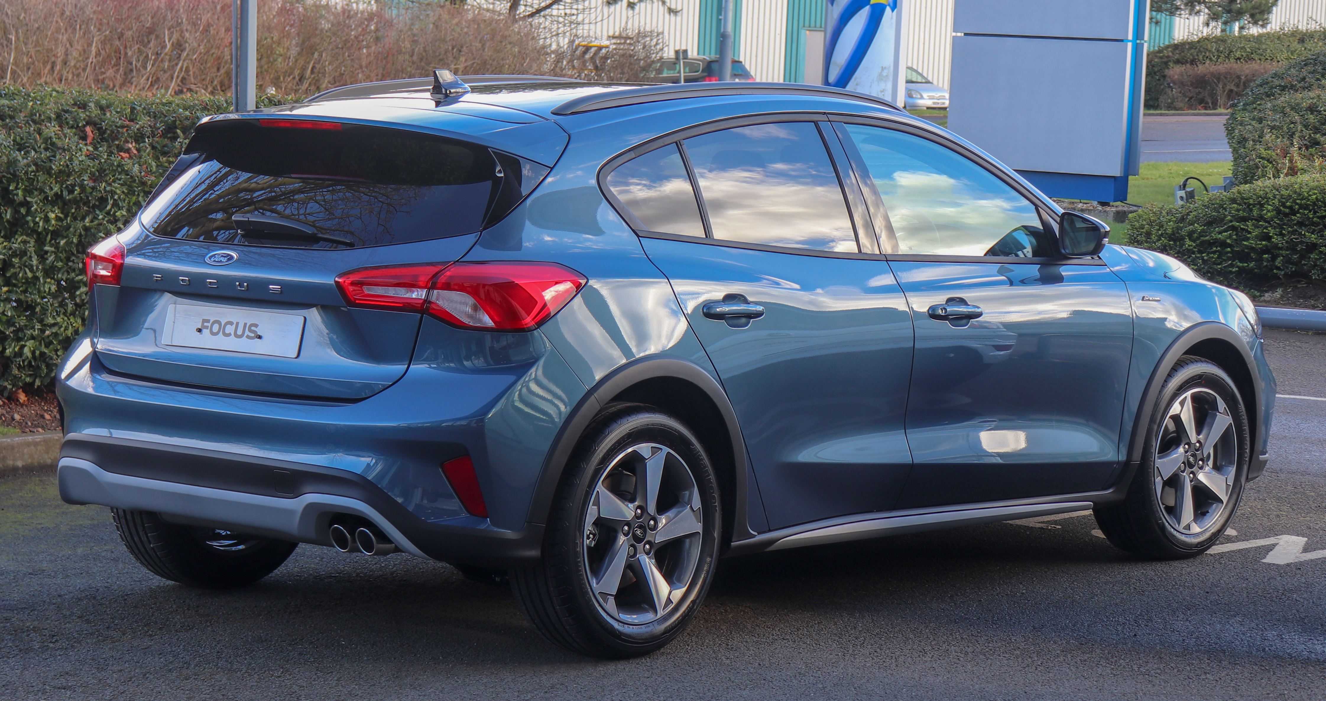 2019 Ford Focus Active Ecoboost 1.0 Rear Taken in Leamington Spa